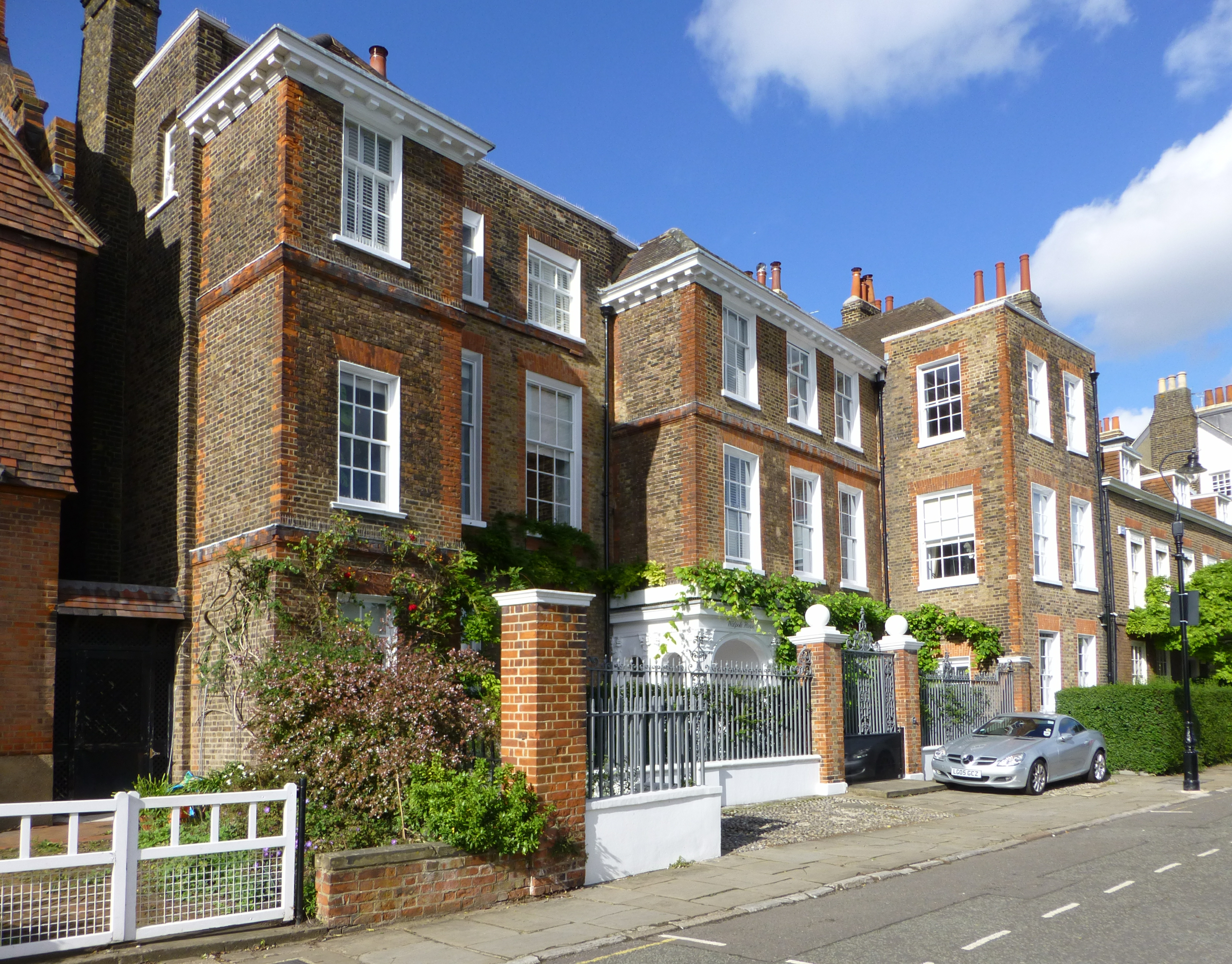 Walpole House in Chiswick Mall, London W4. This house was used in the Agatha Christie's Poirot episode "The Mystery of the Spanish Chest" (1991).